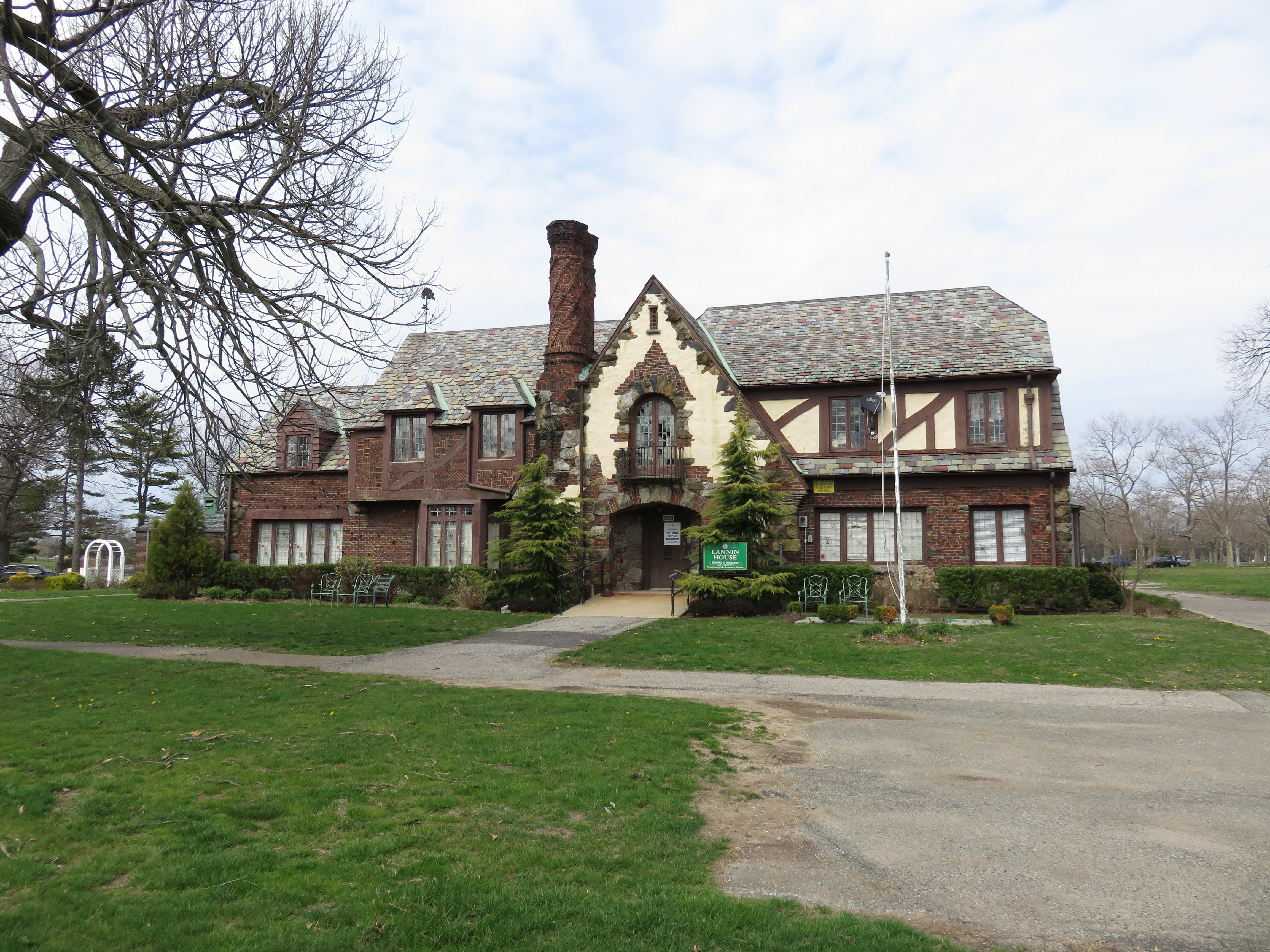 Lannin House in Eisenhower Park in Nassau County, New York in 2017